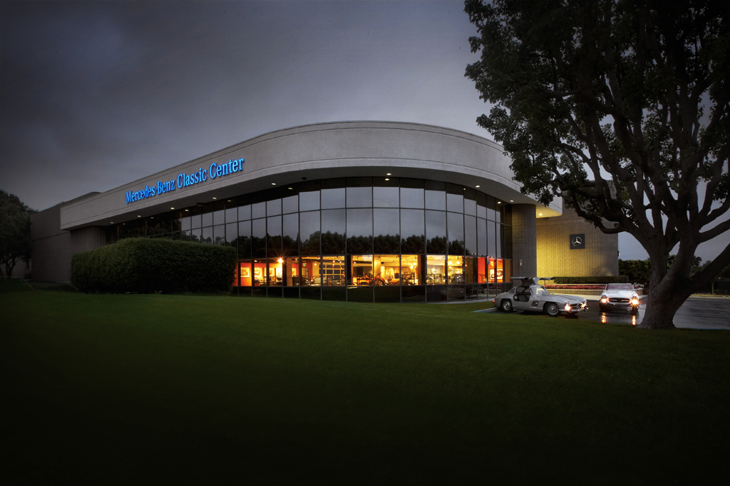 Mercedes-Benz Classic Center, Irvine, California. External view.